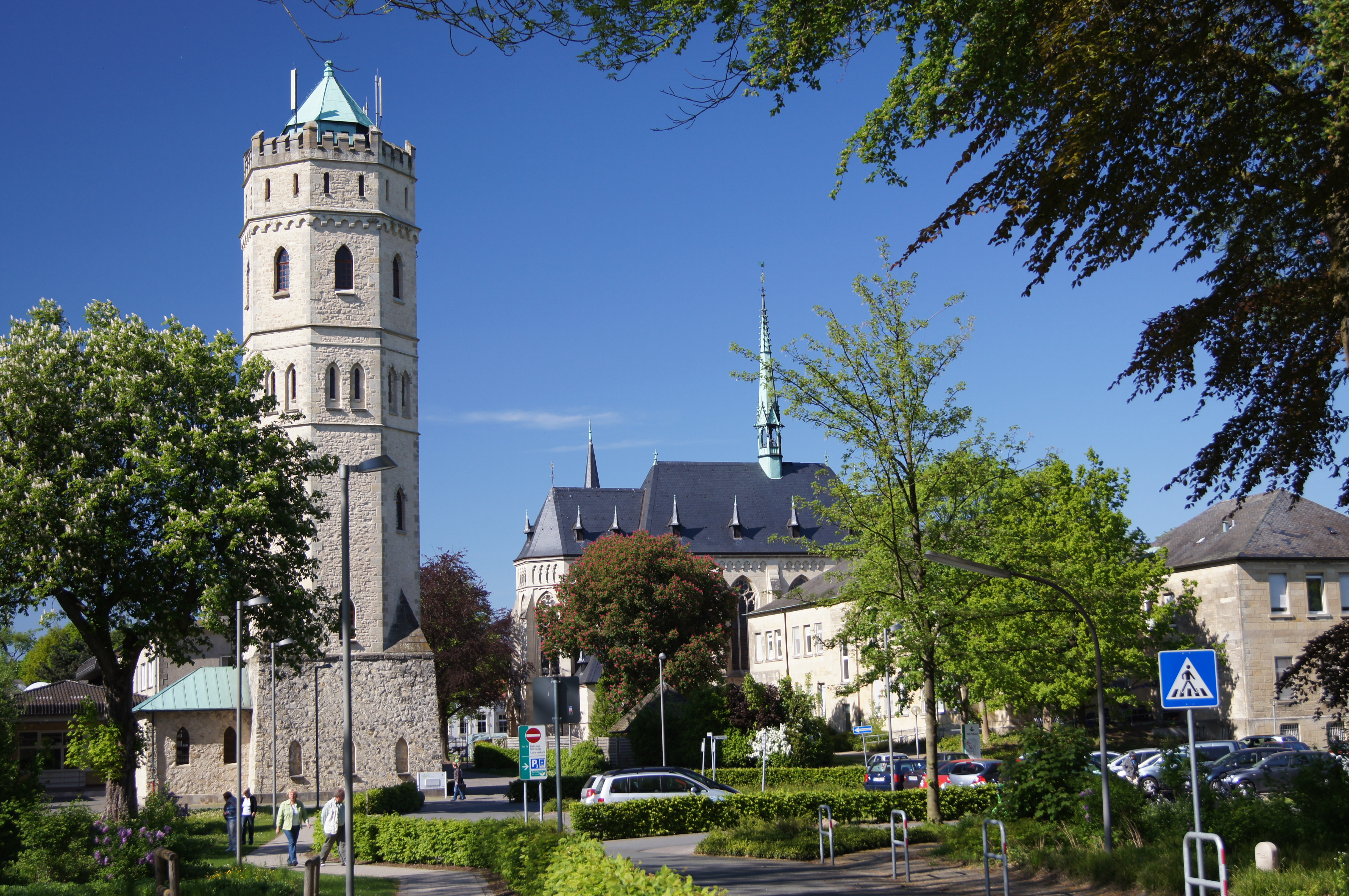 Water Tower and Chapel in Tilbeck, Havixbeck, Westphalia. The chapel was build 1897-1899 by Hilger Hertel.